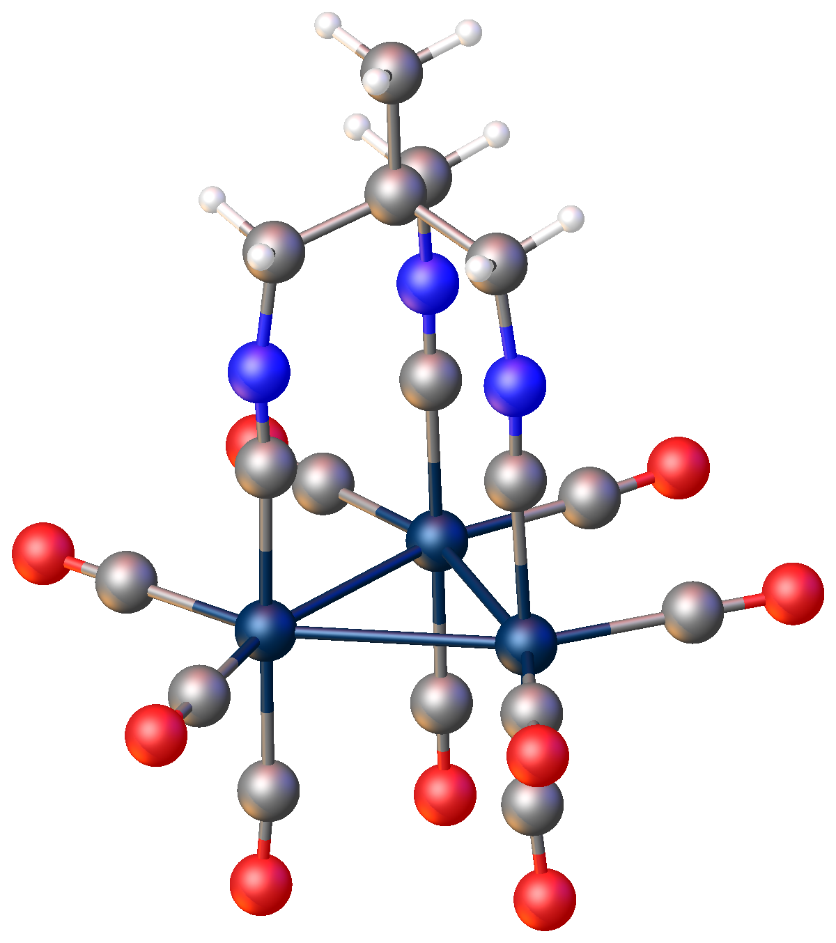 structure of Os3(CO)9((CNCH2)3CMe